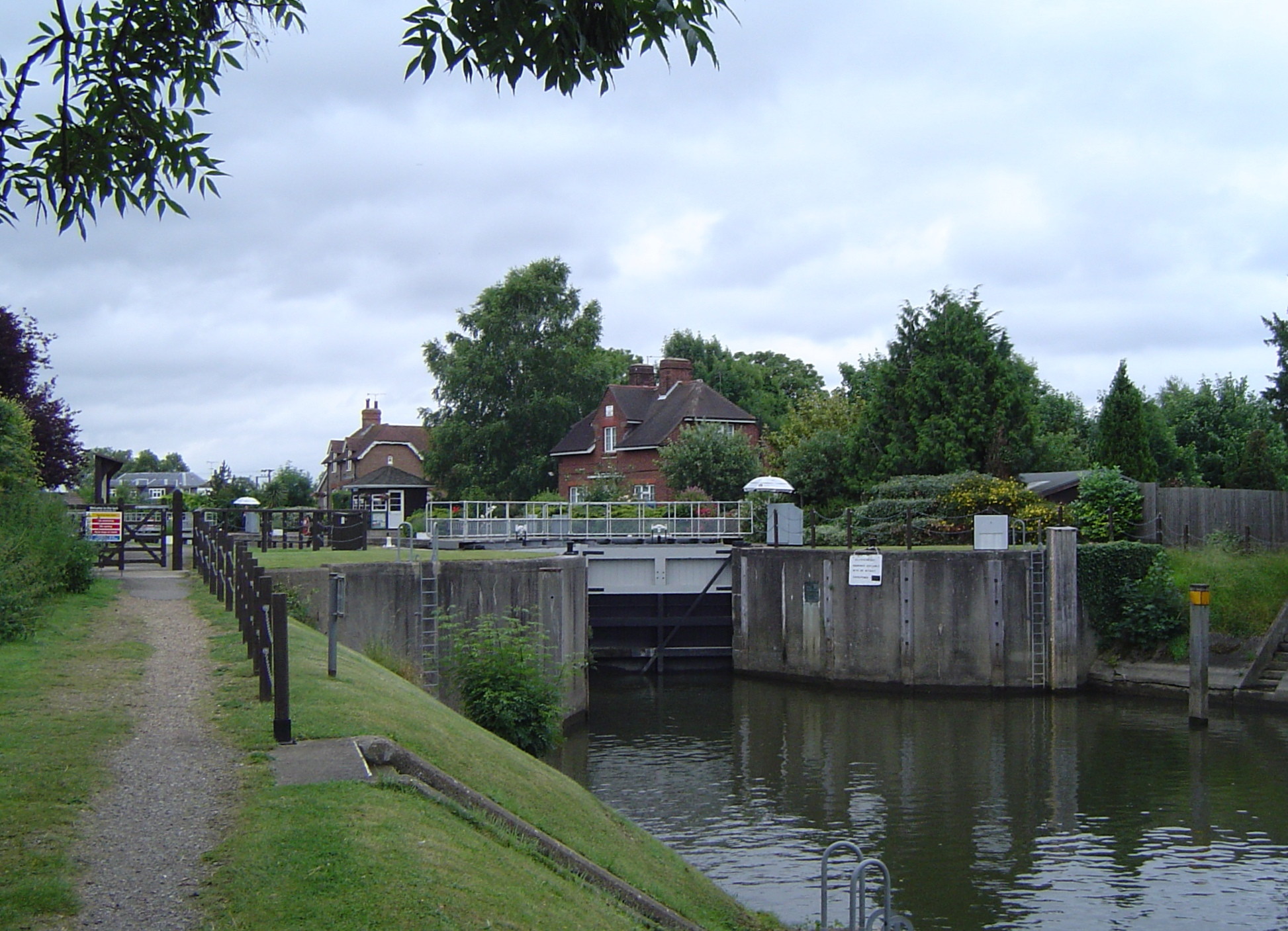 Old Windsor Lock, River Thames (copy from own work on English Wiki)